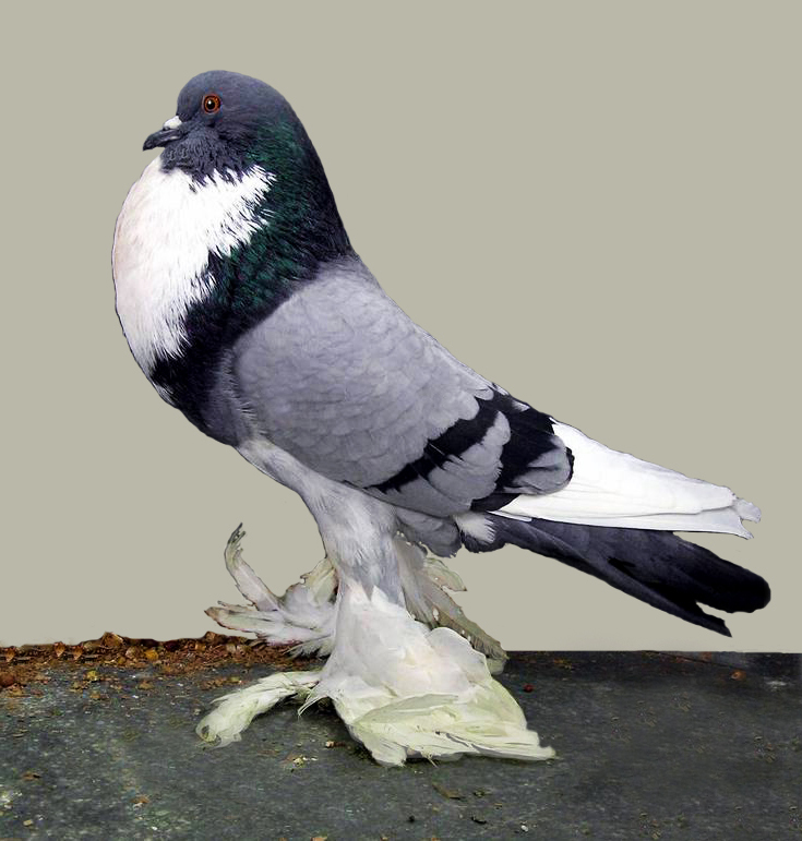 Pomeranian Pouter (Blue Bar)